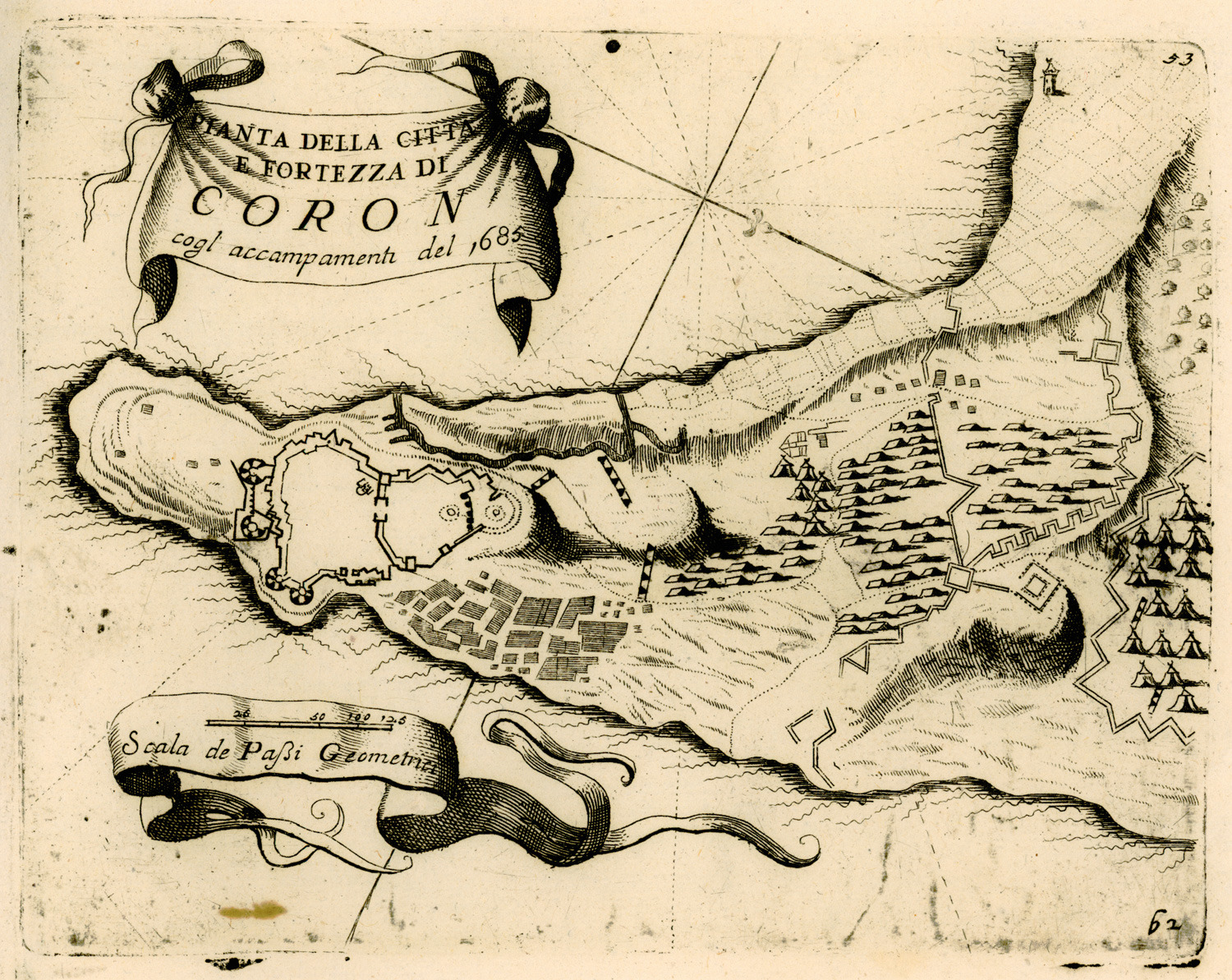 Vincenzo Coronelli - Repubblica di Venezia p. IV. Citta, Fortezze, ed altri Luoghi principali dell' Albania, Epiro e Livadia, e particolarmente i posseduti da Veneti descritti e delineati dal p. Coronelli, Venice, 1688.